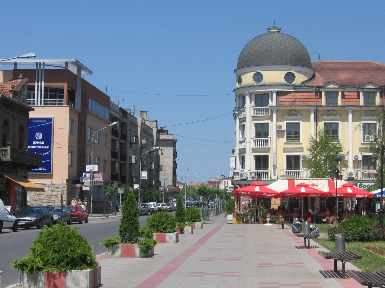 Downtown of Jagodina